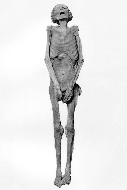 Mummy of the "Unknown Man E" found in DB320, maybe the prince Pentawer, a son of pharaoh Ramesses III of the 20th dynasty who probably took part to the "harem conspiracy".